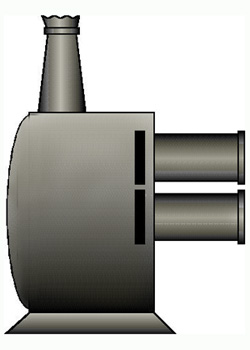 stereopticon/stereoptican created with Claris